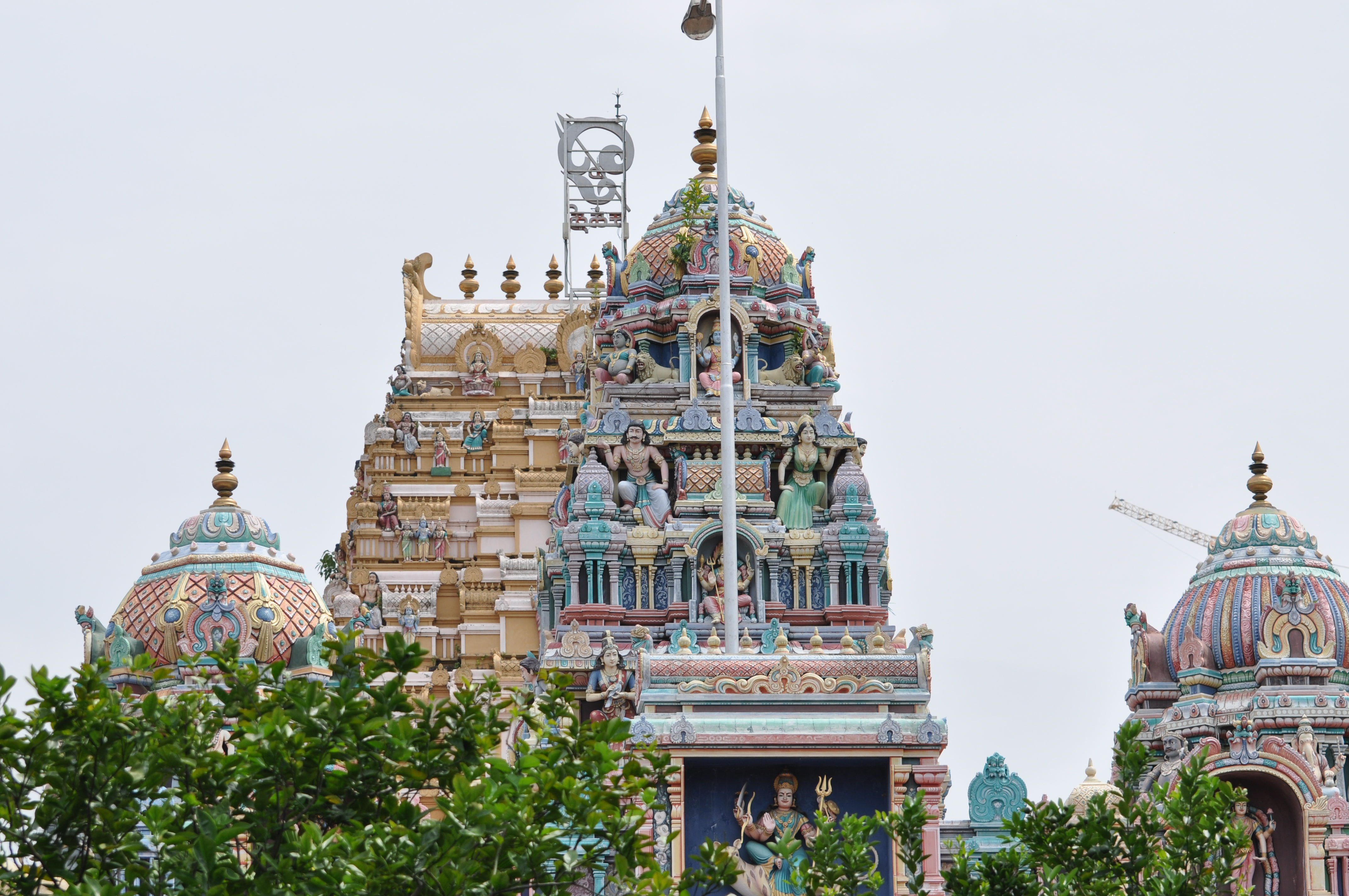 A temple beside the bird park. The sweet sound of birds was suddenly interrupted by the sound of nadaswaram (a South Indian long, wooden trumpet used to play melodies in weddings, religious functions etc.) Well, being outside of India, that sound was melodious in its own right as well. The nadaswaram music was wafting from a South Indian Hindu temple, which I spotted as I looked up beyond the cages of the Penang Bird Park. The Arulmigu Karumariamman Temple is a South Indian Hindu temple set beside the Penang Bird Park. Built in 1997, it is noteworthy because it has the largest and tallest (72ft) rajagopuram (main sculpture tower) in Malaysia. The RM2.3 million temple is dedicated to the Hindu deity Arulmigu Karumariamman. (Butterworth, Penang, Nov. 2013)